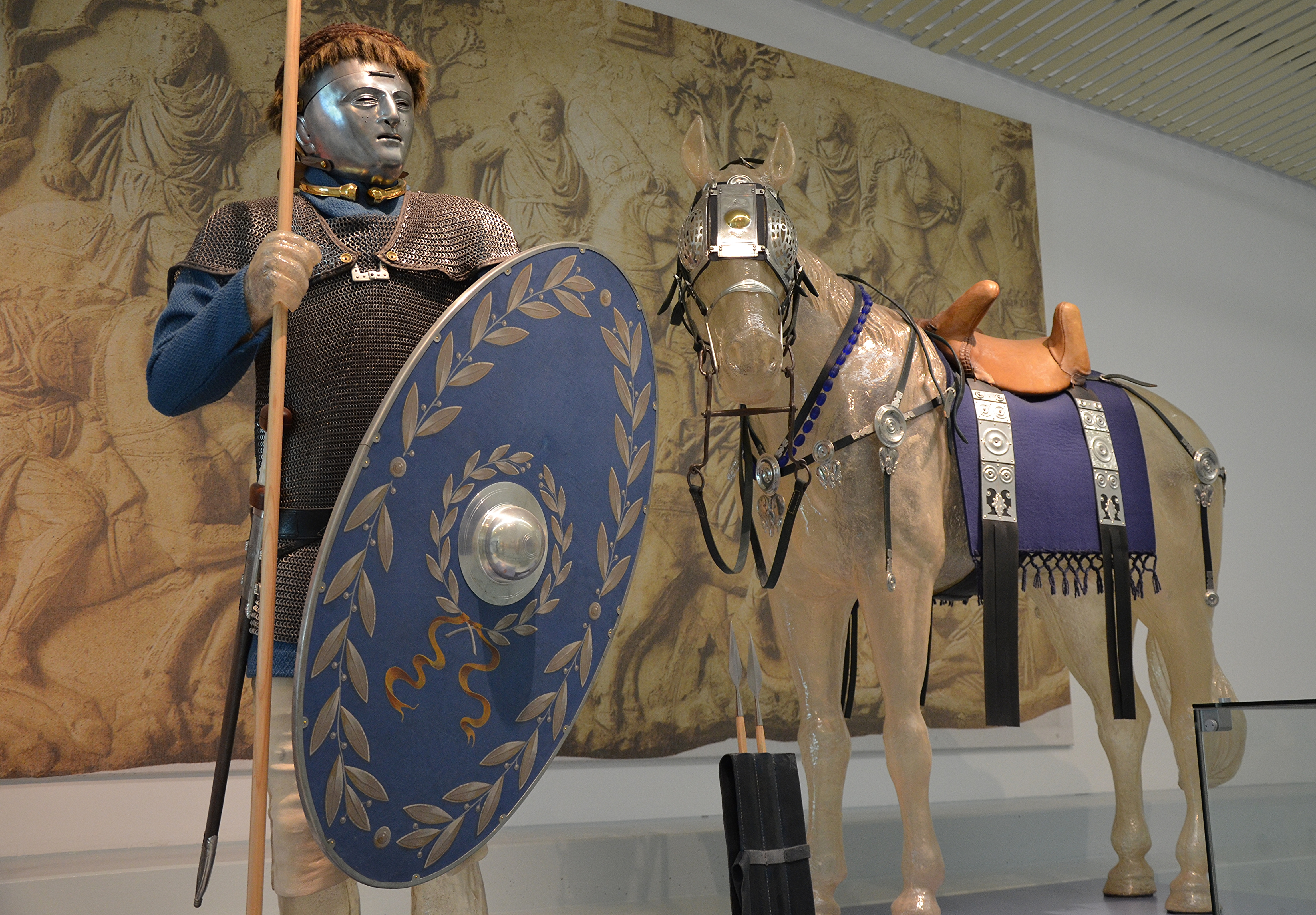 A reconstruction of a cavalryman and horse wearing pieces of display armour typical of the hippika gymnasia, Museum het Valkhof, Nijmegen (Netherlands)